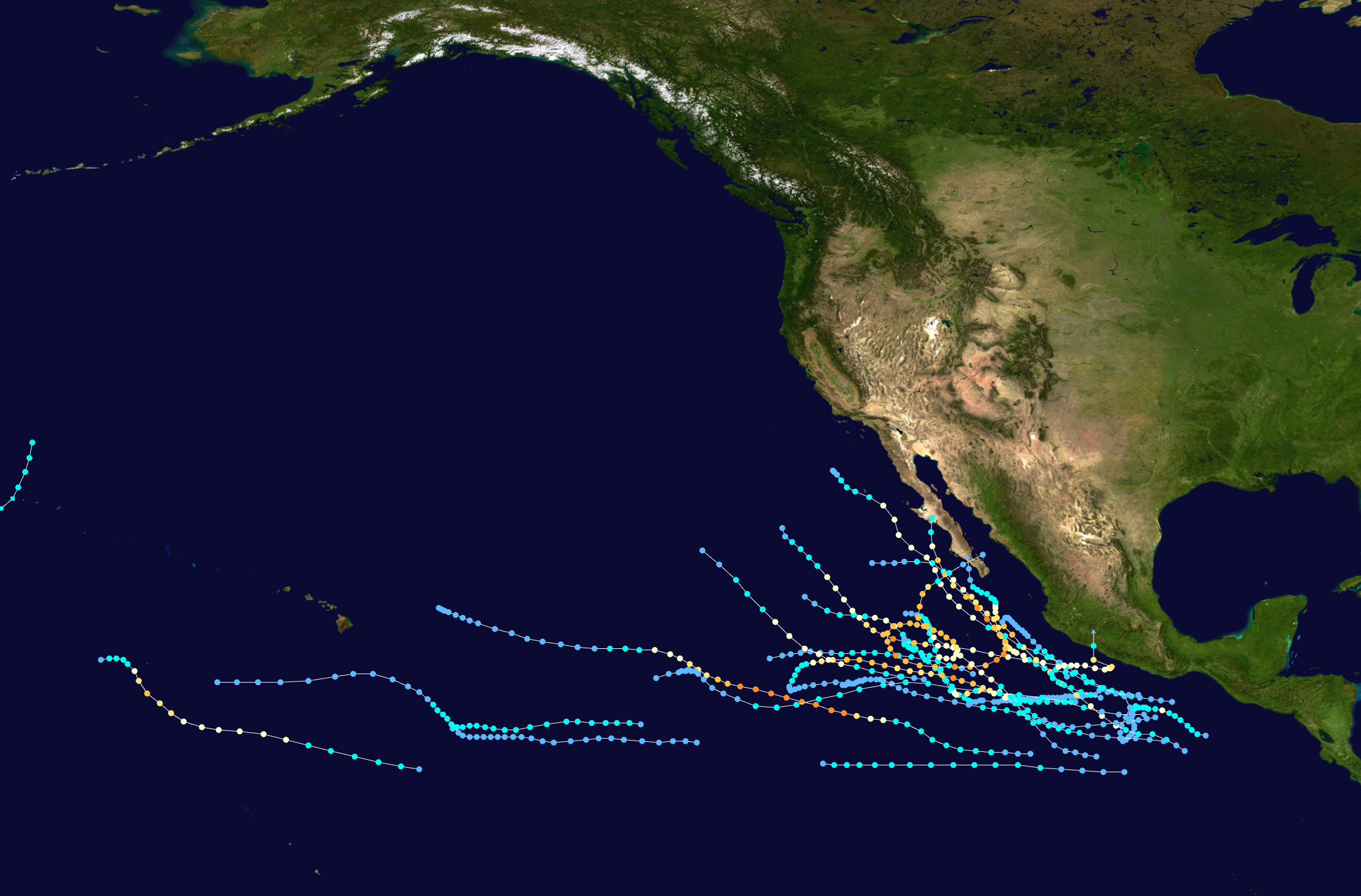 This map shows the tracks of all tropical cyclones in the 1984 Pacific hurricane season. The points show the location of each storm at 6-hour intervals. The colour represents the storm's maximum sustained wind speeds as classified in the Saffir-Simpson Hurricane Scale (see below), and the shape of the data points represent the type of the storm. Saffir–Simpson scale Tropical depression≤38 mph≤62 km/h Category 3111–129 mph178–208 km/h Tropical storm39–73 mph63–118 km/h Category 4130–156 mph209–251 km/h Category 174–95 mph119–153 km/h Category 5≥157 mph≥252 km/h Category 296–110 mph154–177 km/h Unknown Storm type Tropical cyclone Subtropical cyclone Extratropical cyclone / Remnant low / Tropical disturbance / Monsoon depression